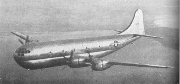 The first Boeing XC-97 Stratofreighter (s/n 43-27470) in flight in 1946. (Boeing Model 367)